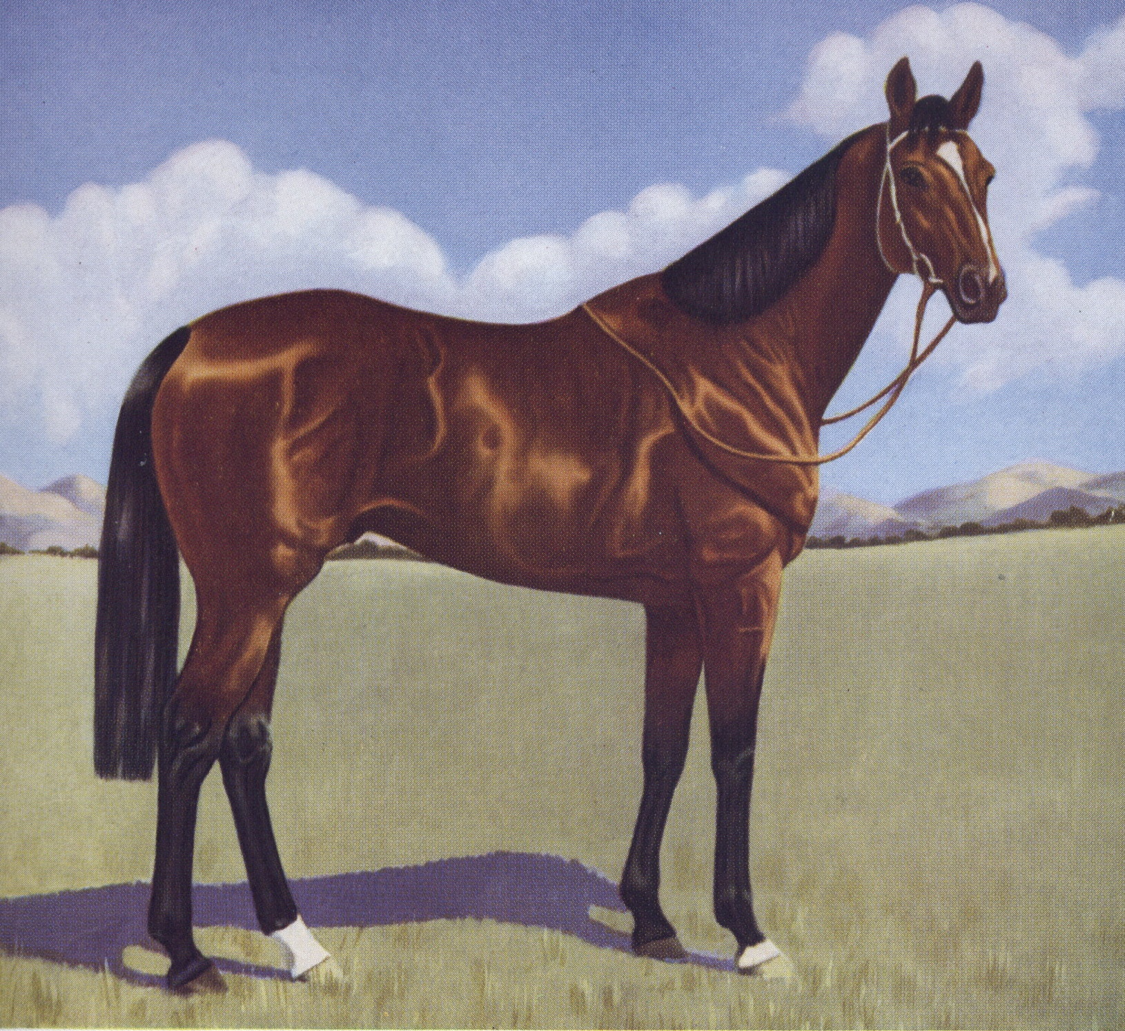 Shannon (AUS) B. h. 1941. A record breaker in Australia and the US.